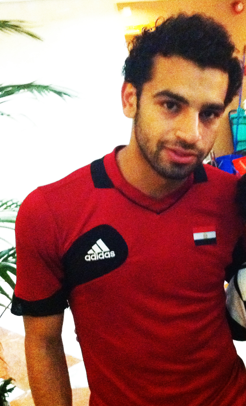 mohamed salah